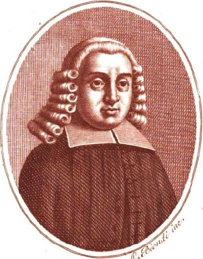 Vincenzo Auria, Sicilian lawyer and historian